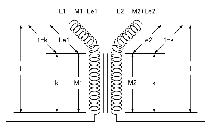 Coupling Coefficient image